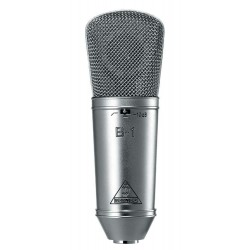 Micro123456444